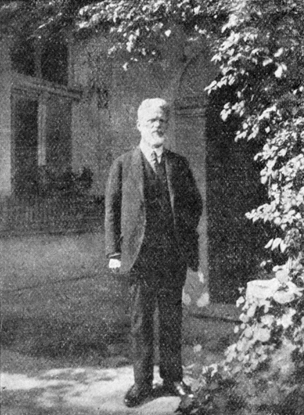 Jan Laichter (1858–1946) was a Czech publisher.